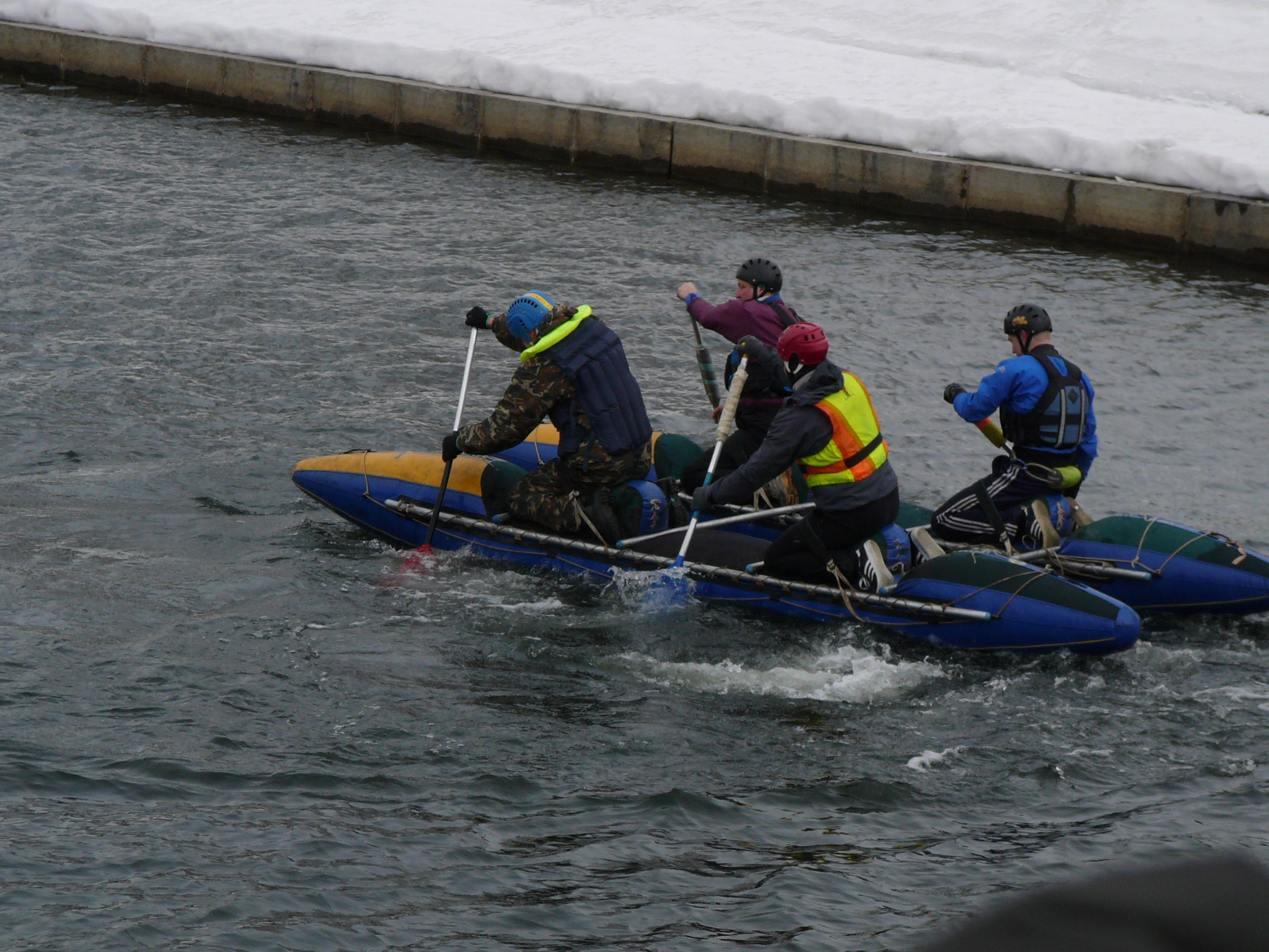 Sverdlovsk kayakers in the center of Yekaterinburg in the city pond (March 2011)